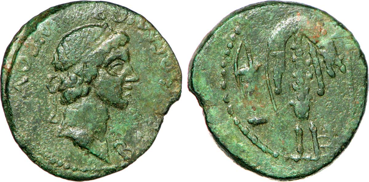 Douze nummia à l'effigie de Mithridate II du Bosphore Date : 39-45 Description revers : Massue surmontée de la léonté entre un arc dans son carquois et un trident .